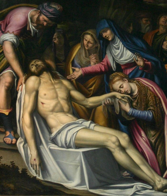 Detail from Peterzano's Pietà in San Fedele church, Milan